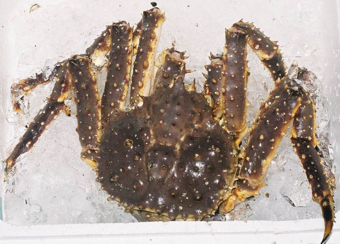 King crab (perhaps Paralithodes camtschatica) on ice for sale at the Shiogama seafood maket in Japan. Image ID: fish5116, Fisheries Collection